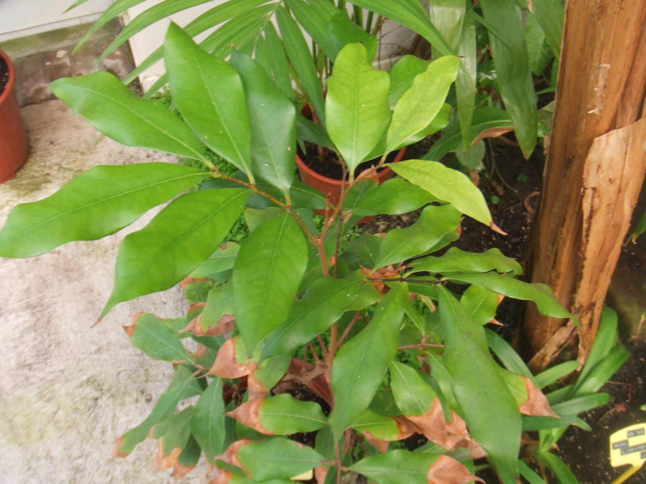 Litchi chinensis picture taken at the Botanische tuin TU Delft in Delft, The Netherlands